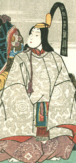 Detail of Young Emperor - “Ogura Nazorae Hyakunin Issu” (Ogura Imitation of One Hundred Poems by One Hundred Poets) - No.22, by Kuniyoshi Utagawa (1797-1861). Woodblock print depicting Emperor Antoku, who 8 years old, perished along with his Heike clan relatives at the Battle of Dannoura Bay.